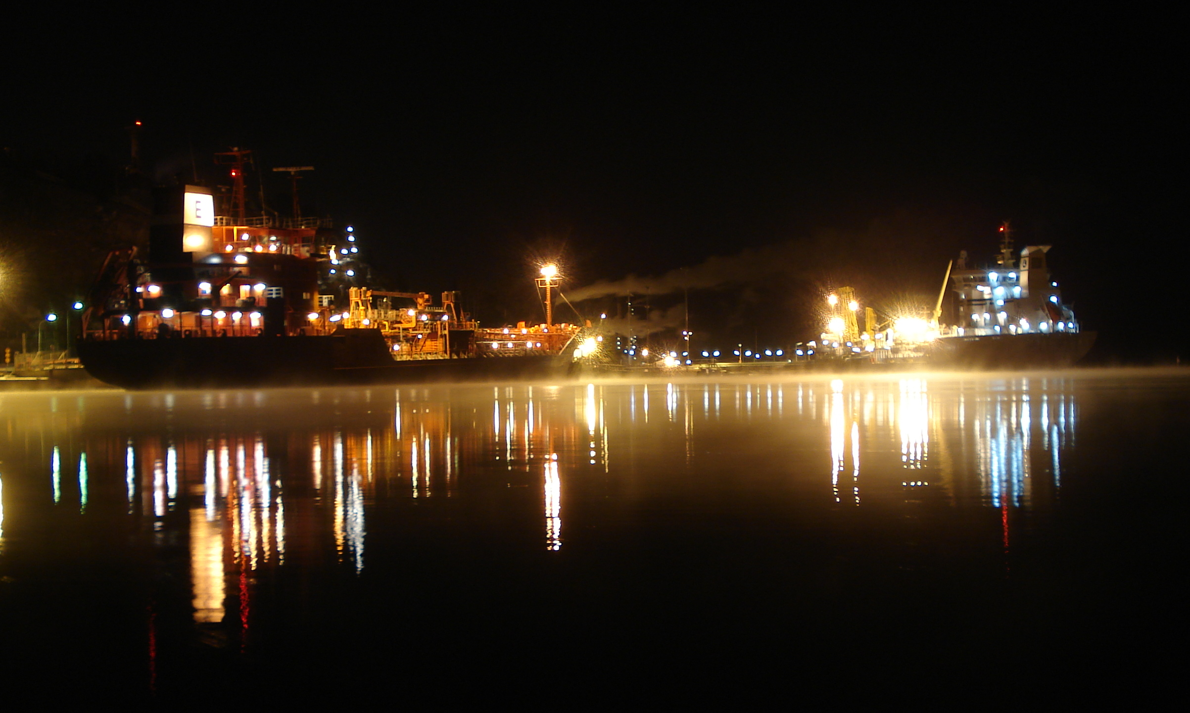 Naantali refinery port owned by Neste Oil. Port is a part of Port of Naantali, Naantali, Finland.